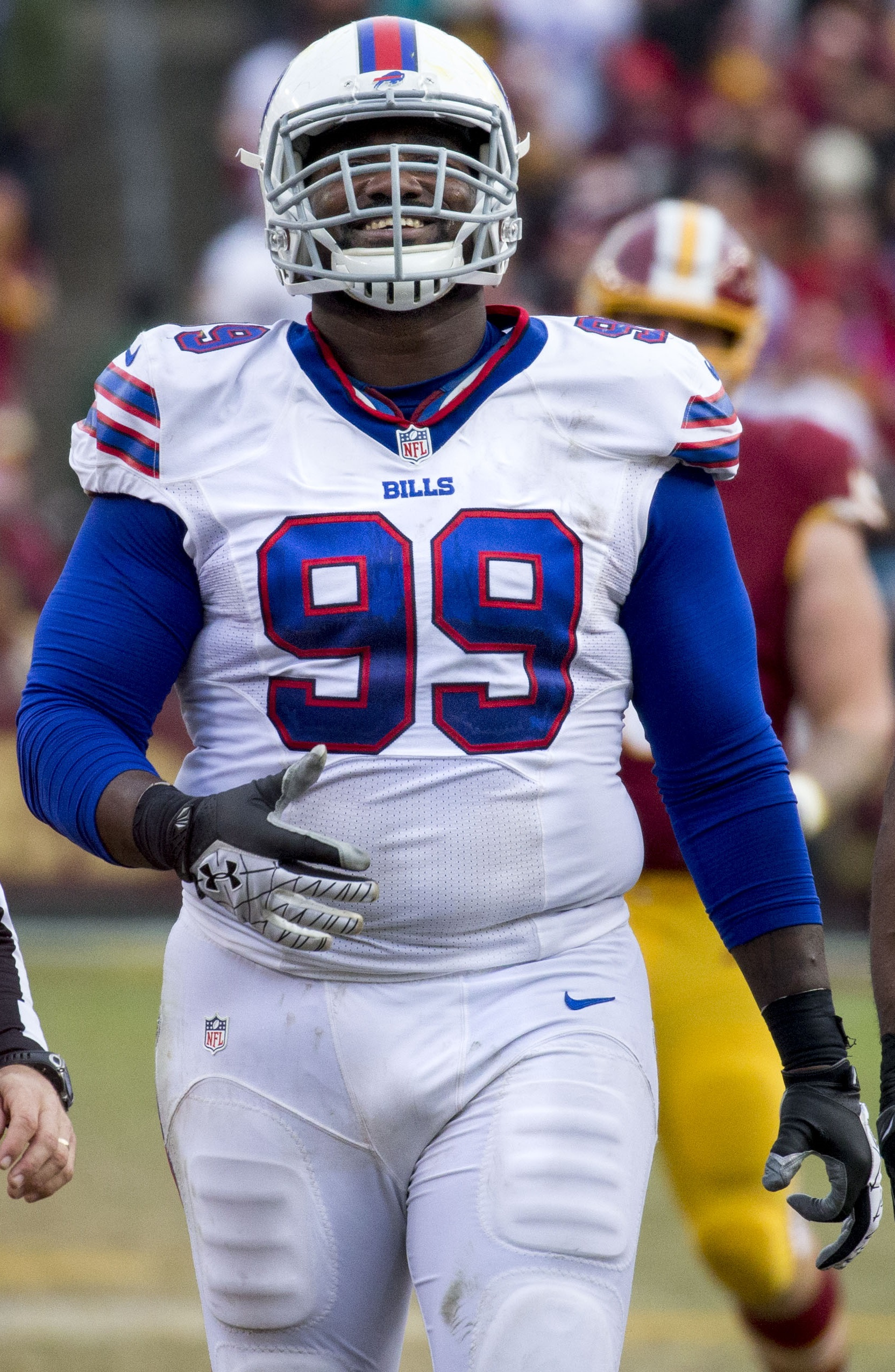 Bills at Redskins 12/20/15